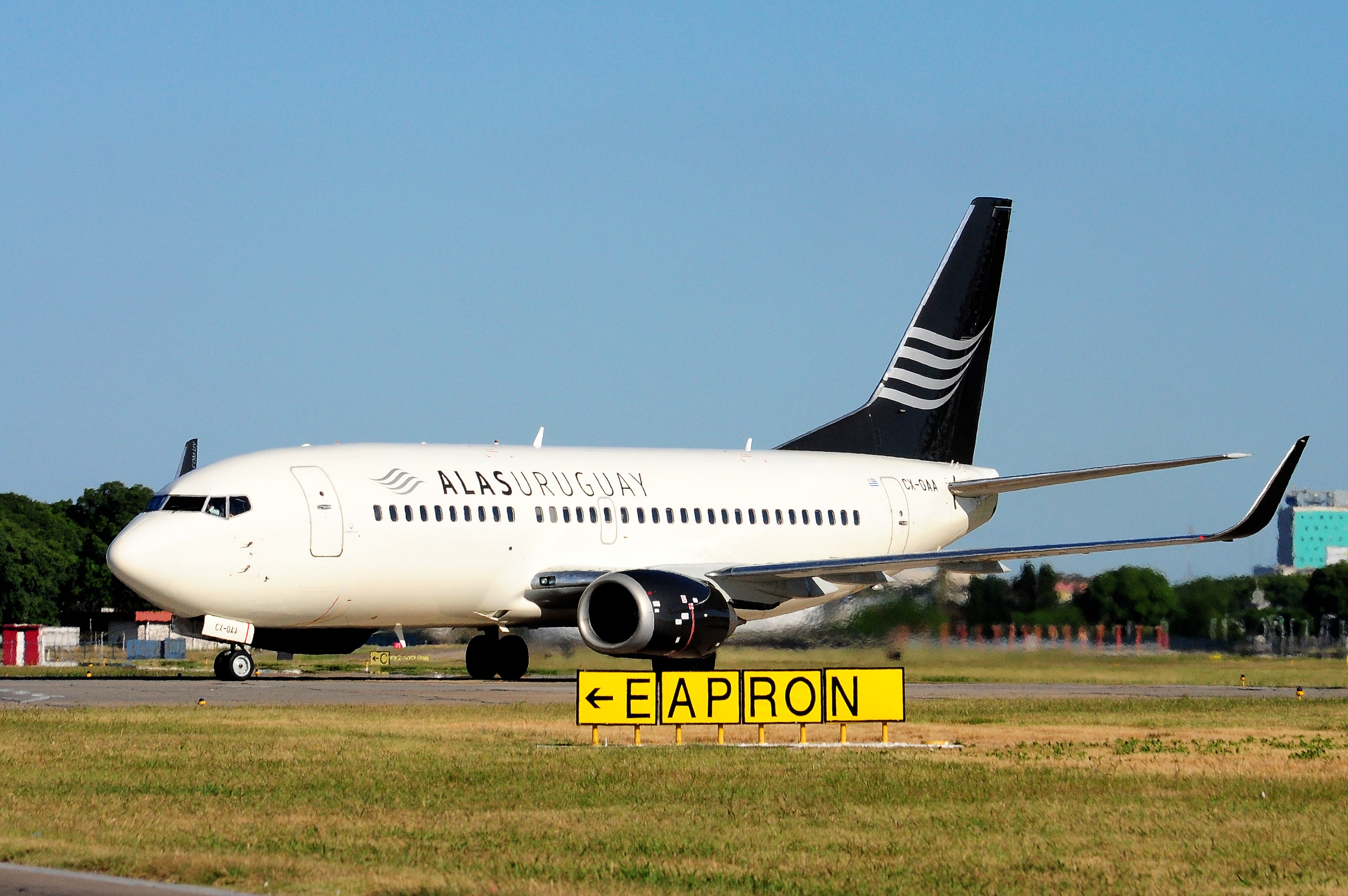 Boeing 737-300 (CX-OAA) of Alas Uruguay in Jorge Newbery Airfield, Buenos Aires, Argentina.